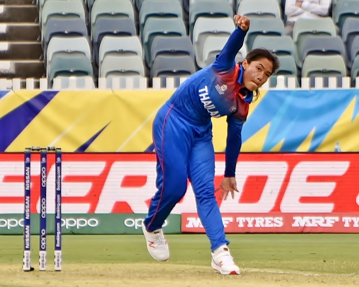 Chanida Sutthiruang bowling for Thailand against the West Indies during their 2020 ICC Women's T20 World Cup match at the WACA Ground in Perth, Australia